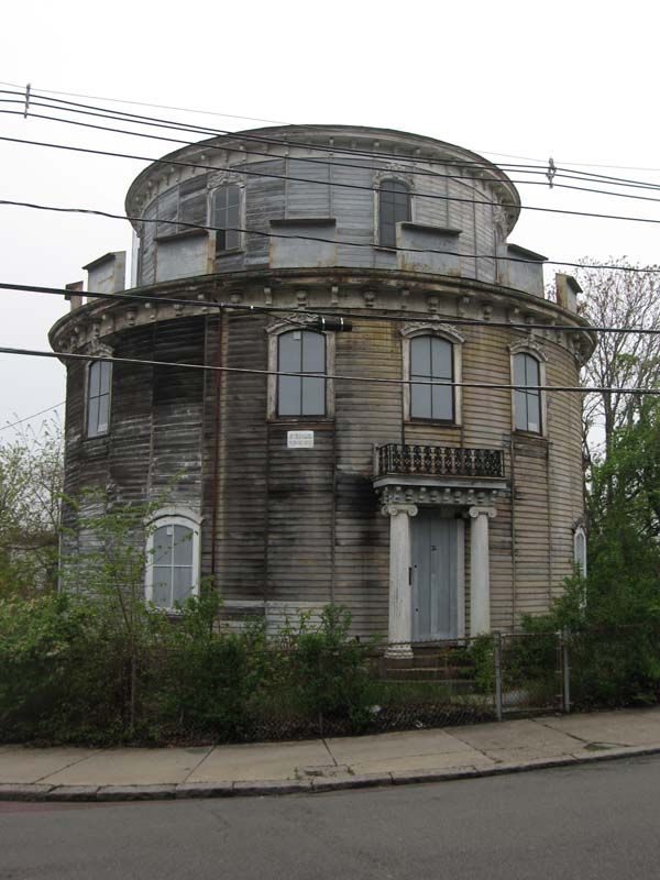 The Round House, Atherton Street, Somerville, Massachusetts, USA. Taken 11 May 2006.